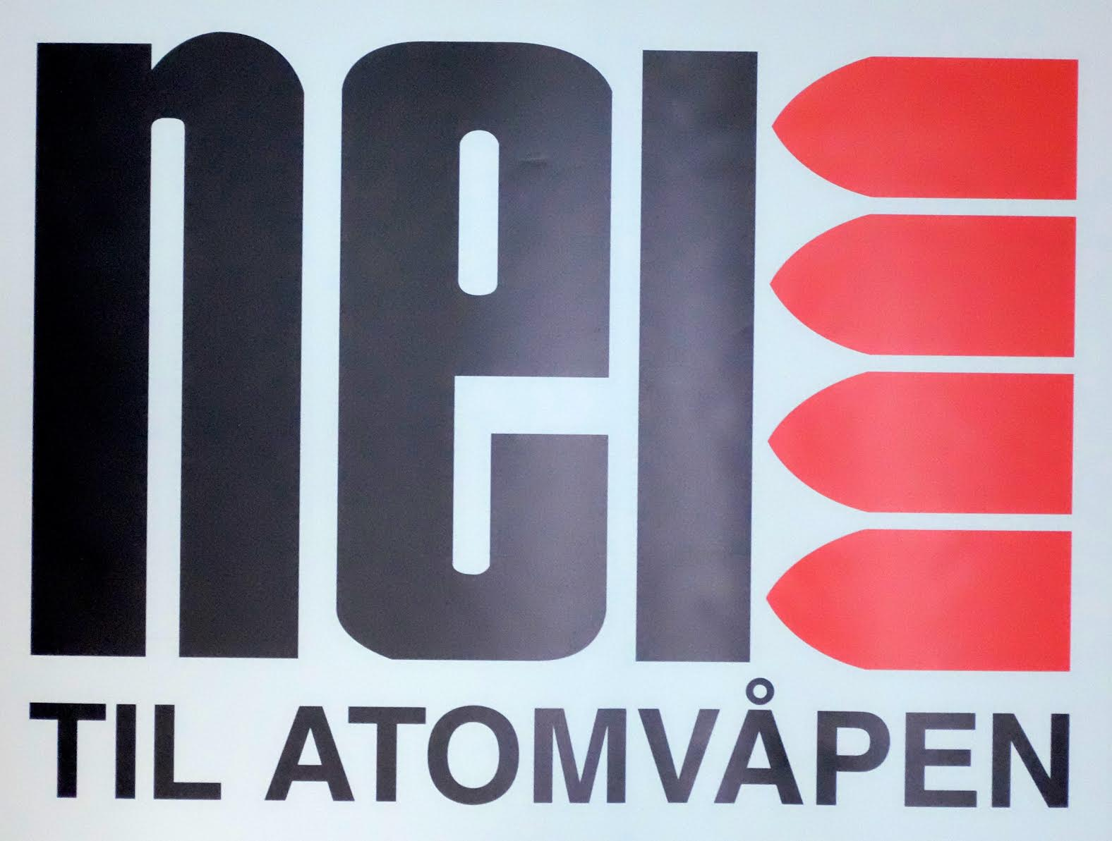 Logofoto